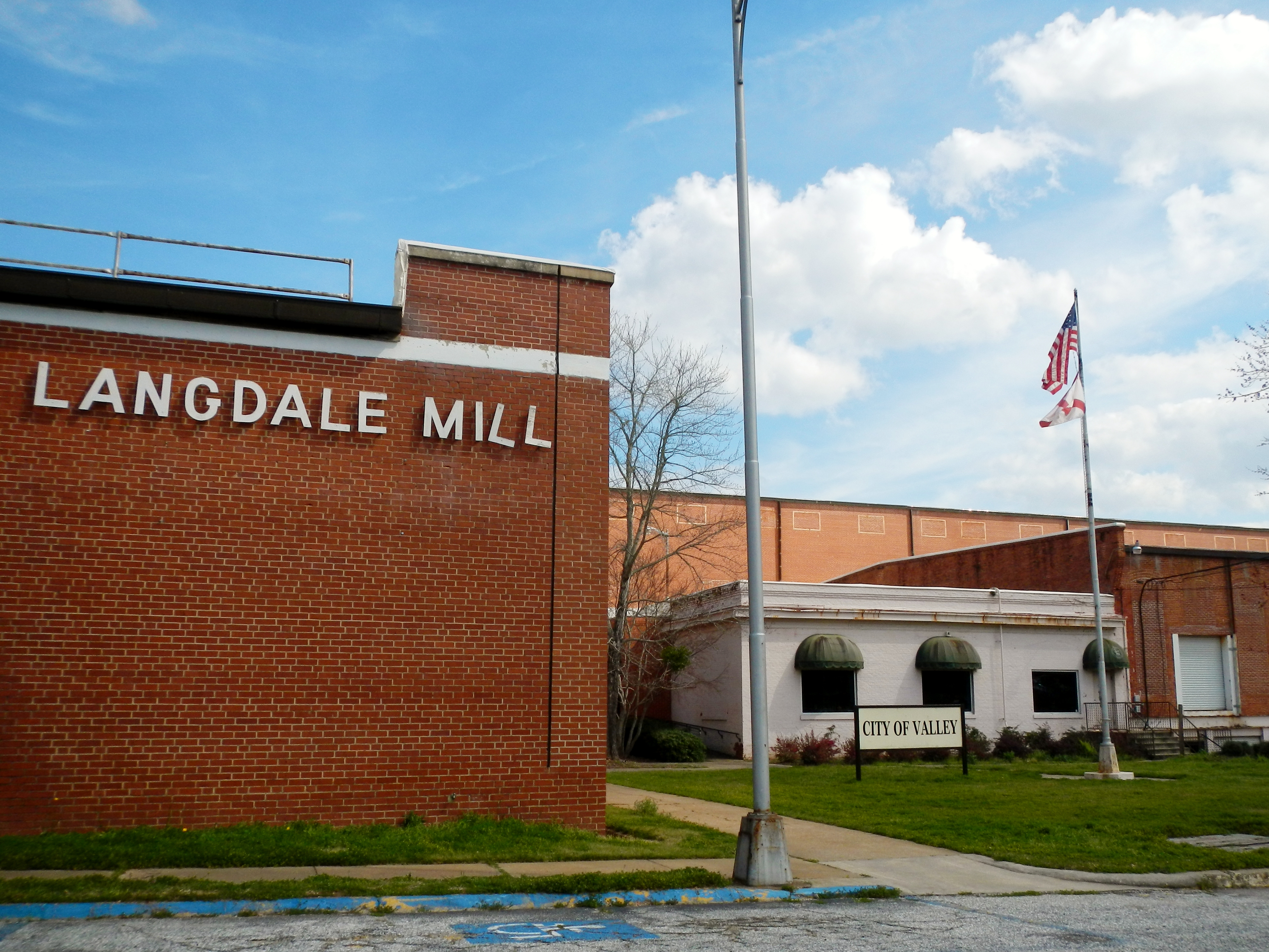 This is a photograph of the Langdale Mill located in the Langdale Historic District in Valley, Alabama.